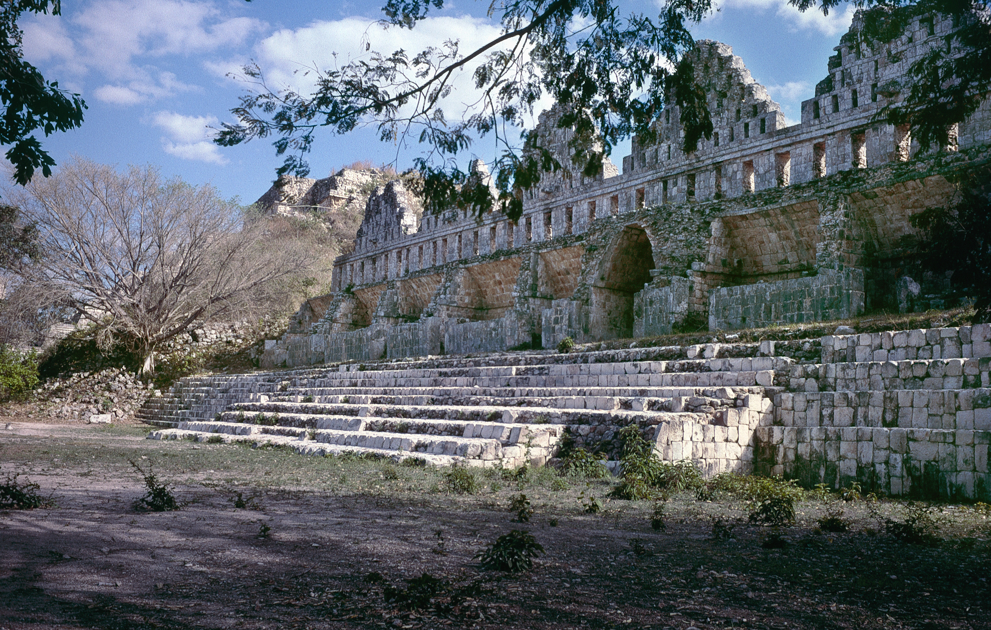 Uxmal, Yucatan, Mexico: Palomas north side